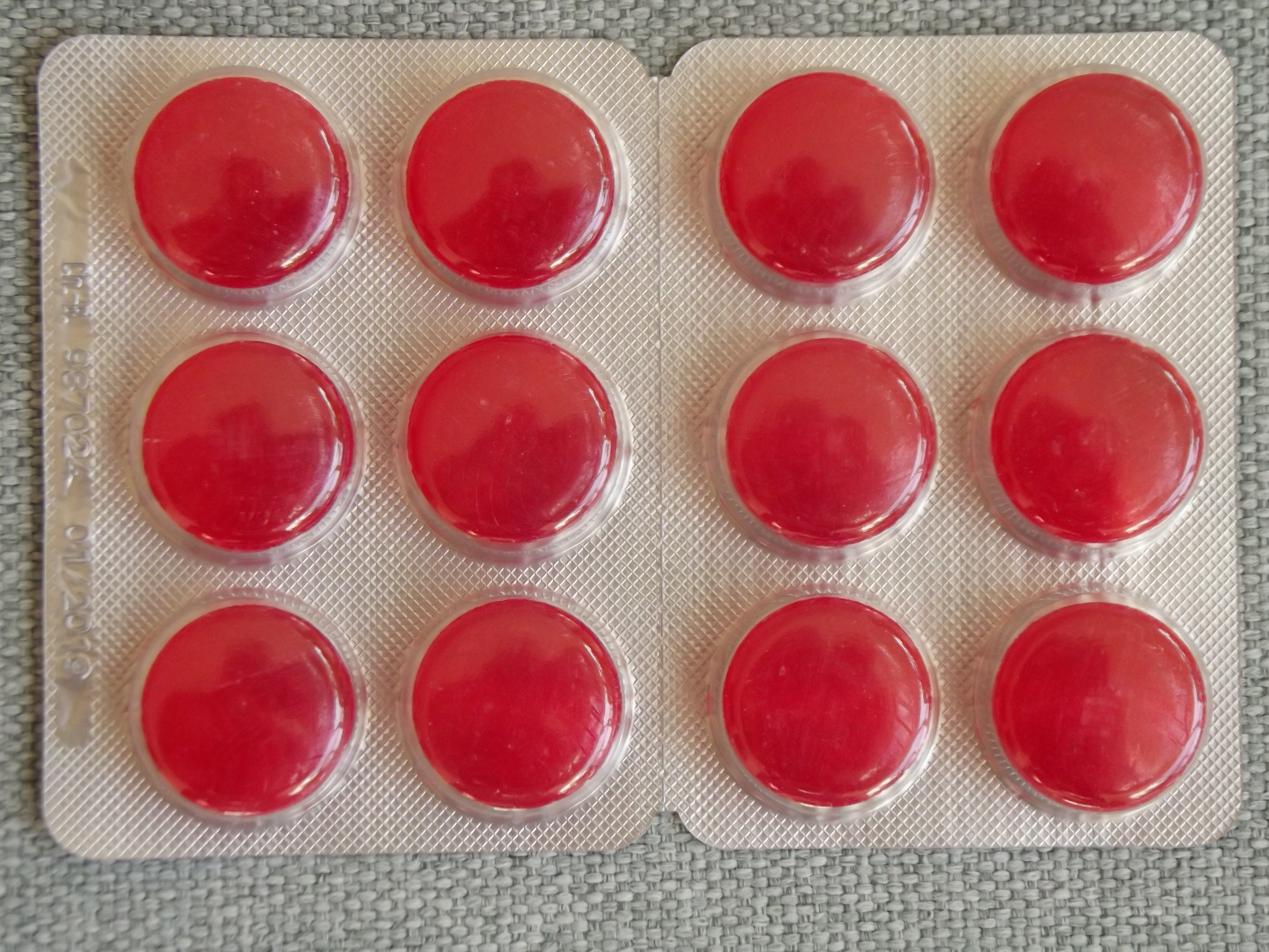 Lozenges